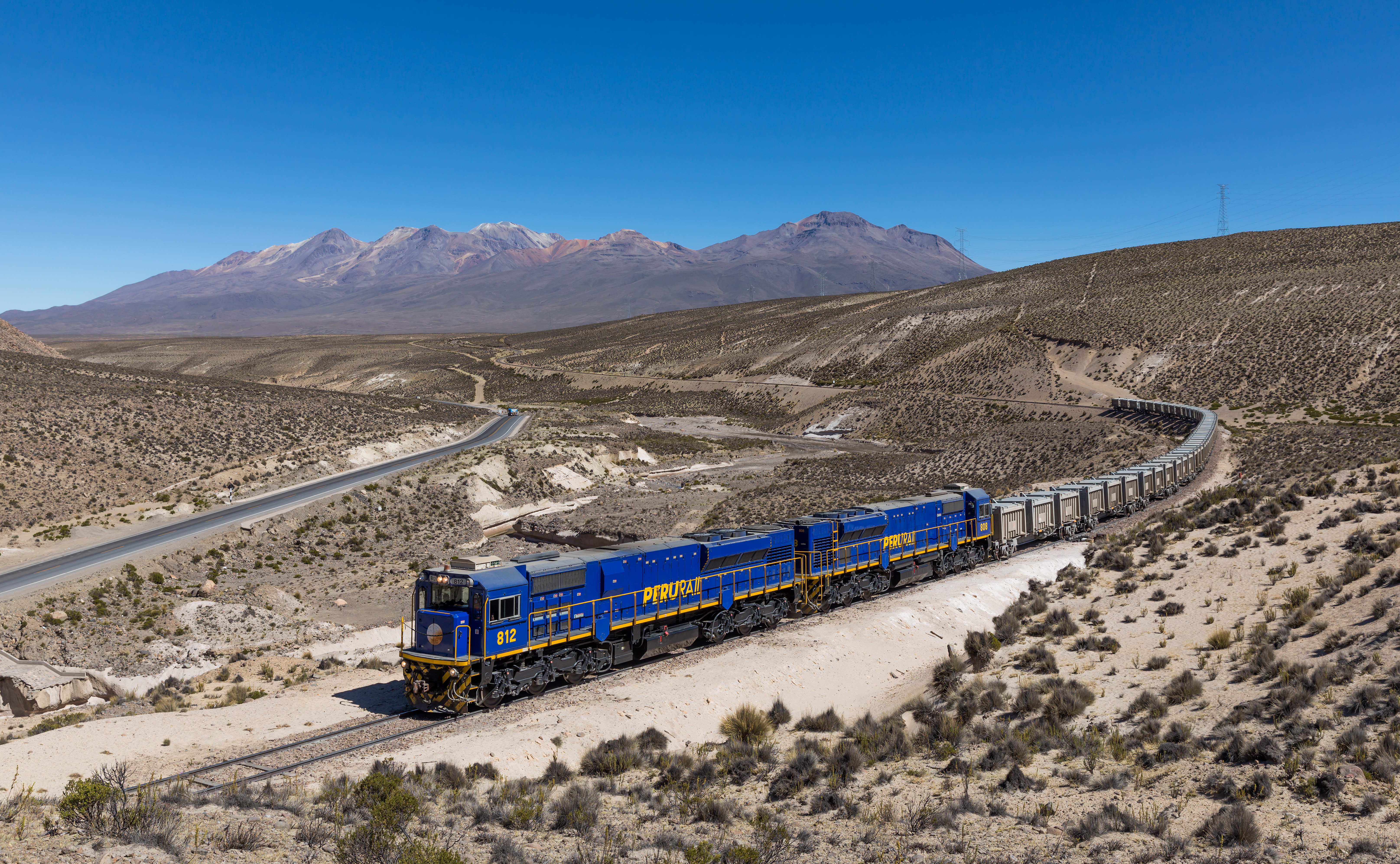 PeruRail's EMD GT42AC 812 and 808 haul a container train from Matarani towards the Las Bambas mine. The train is pictured just before arriving at Km 99, where a temporary facility is used to transfer the containers from rail to trucks for the remainer of the distance.